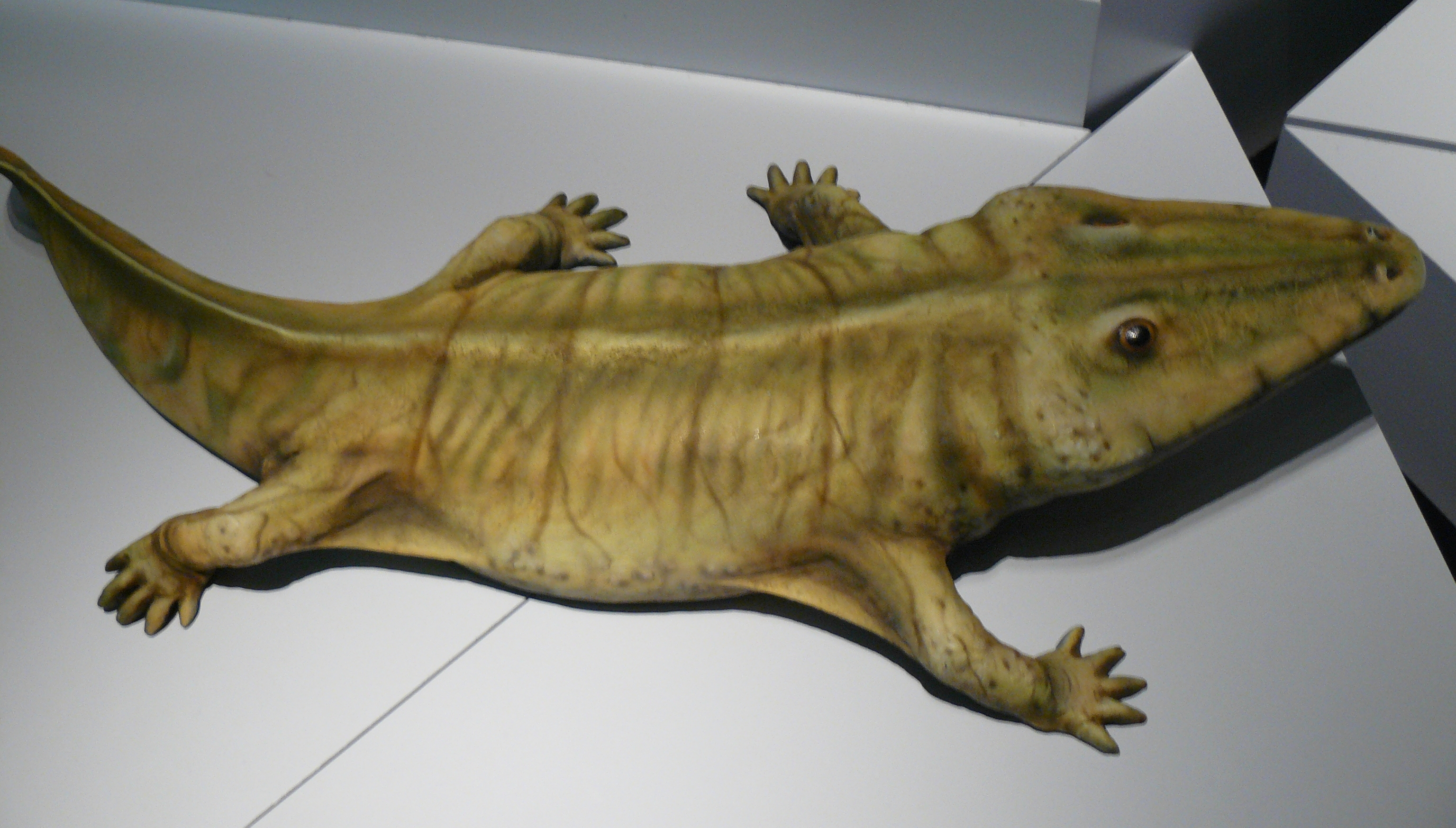 Capitosaurus